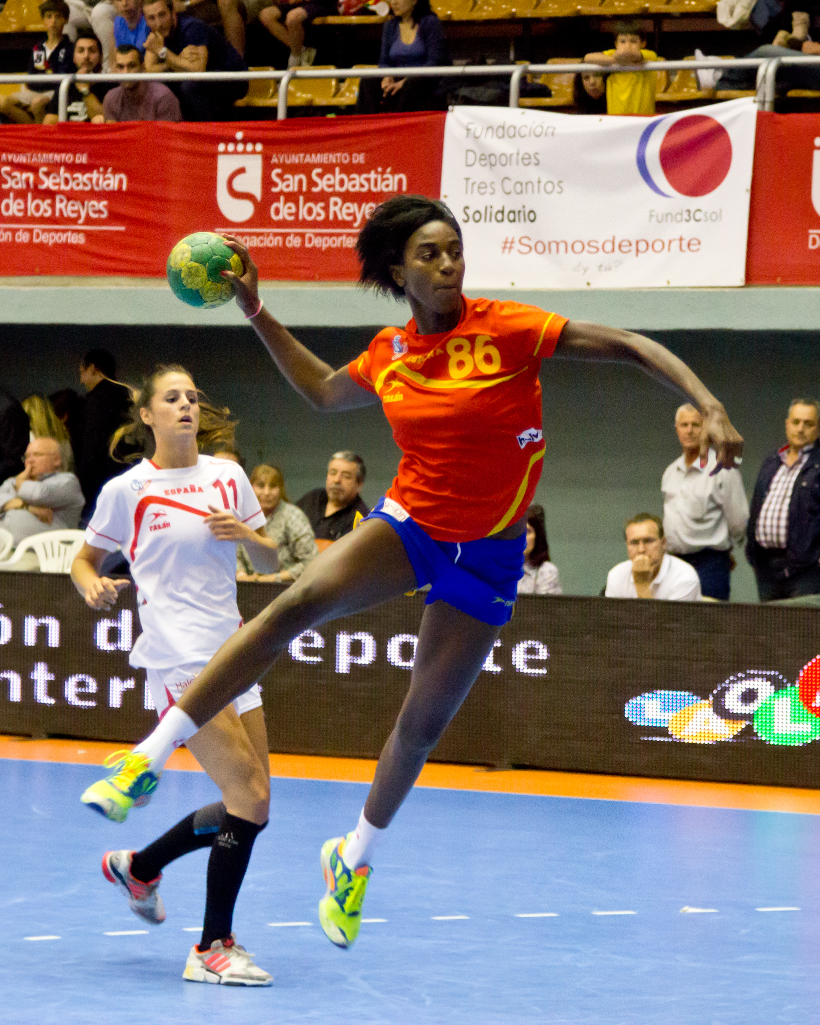 Handball All Star Game 2013, held in San Sebastián de los Reyes, Madrid, Spain.